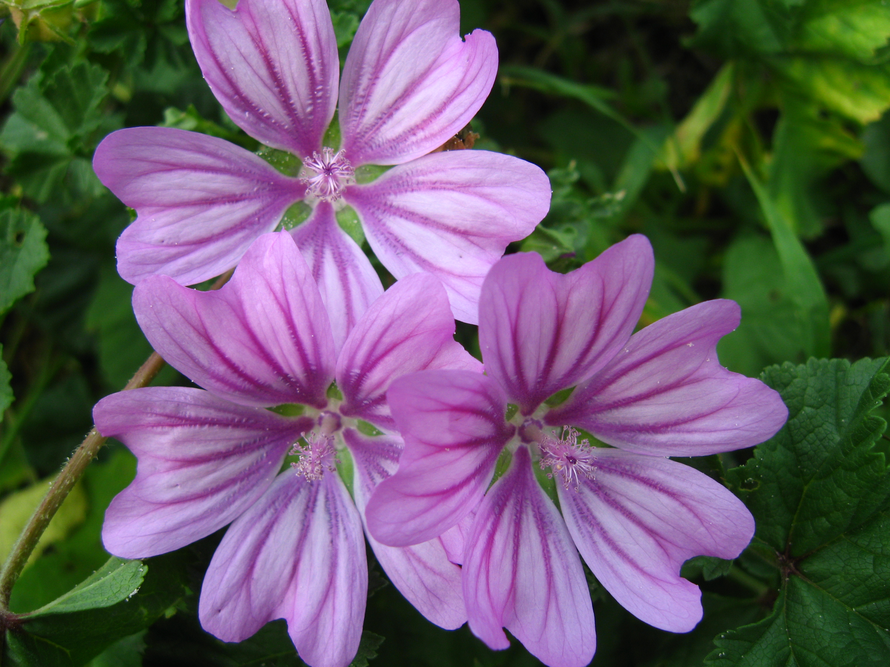 Malva sylvestris